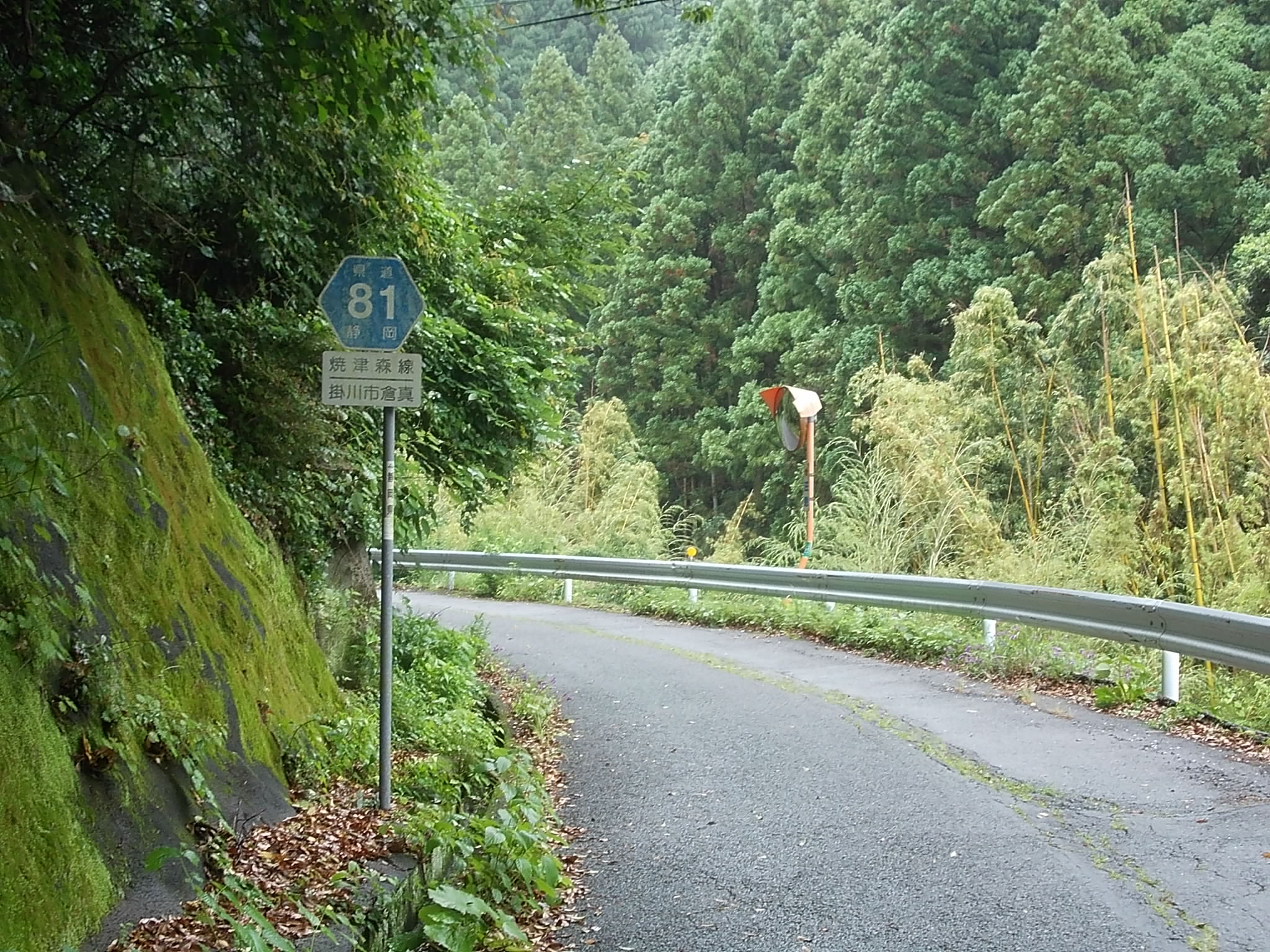 Shizuoka prefectural Route 81, Kakegawa, Shizuoka